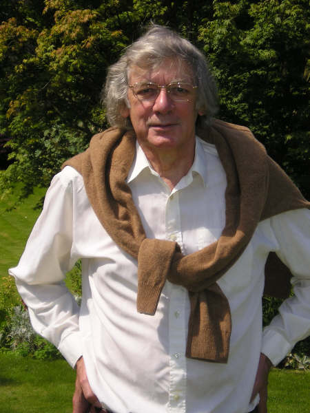 Photo of Ted Honderich